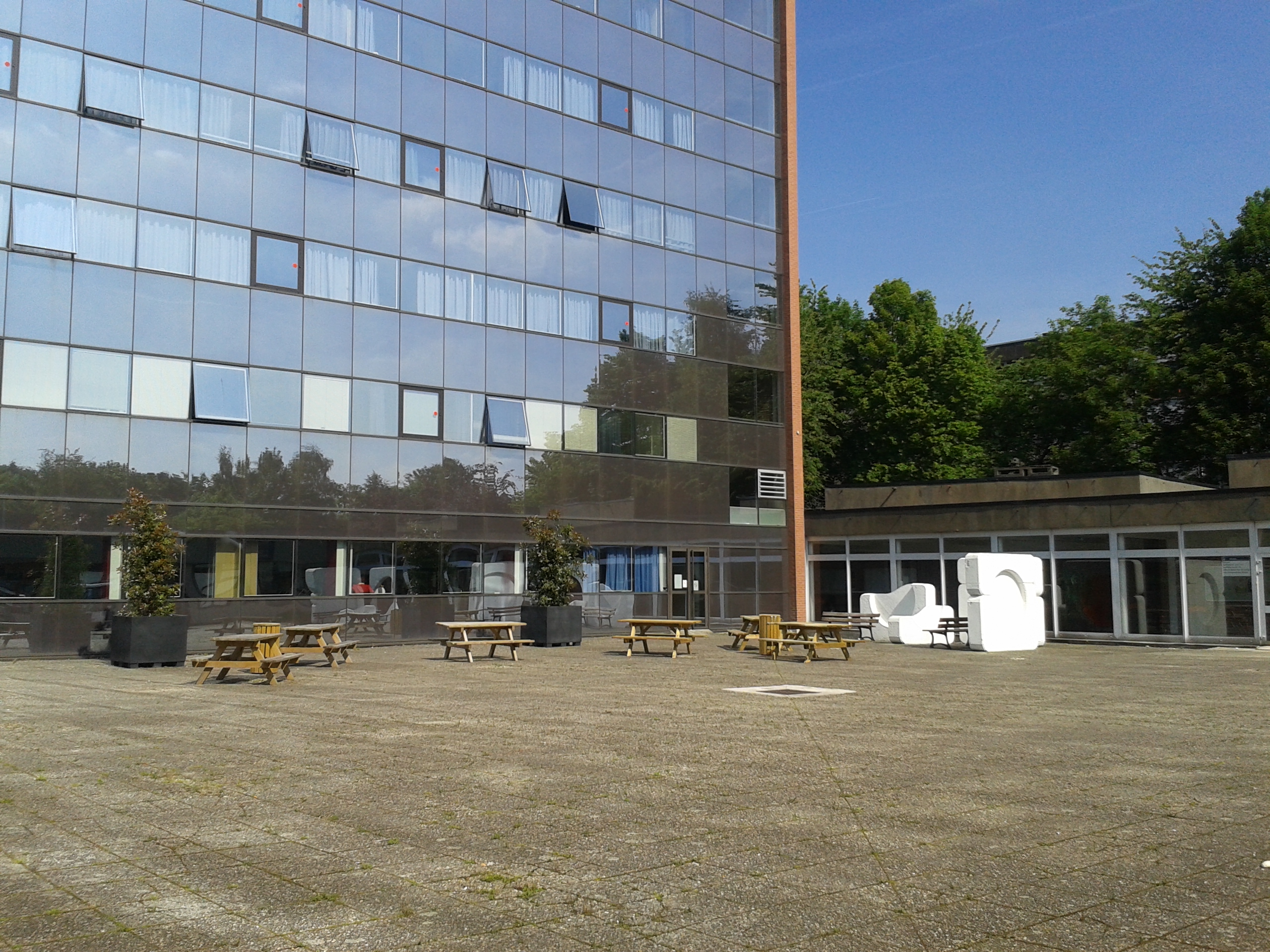 Court in École Centrale de Lille